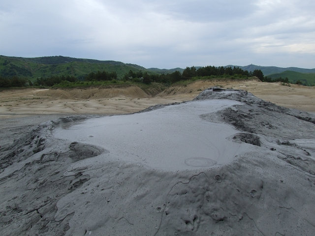 The biggest mud volcano from Little Mud Volcanoes location. Picture made by Laurentiu Constantinescu, May 2006, Muddy Vulcanos, Berca, Buzau County, Romania